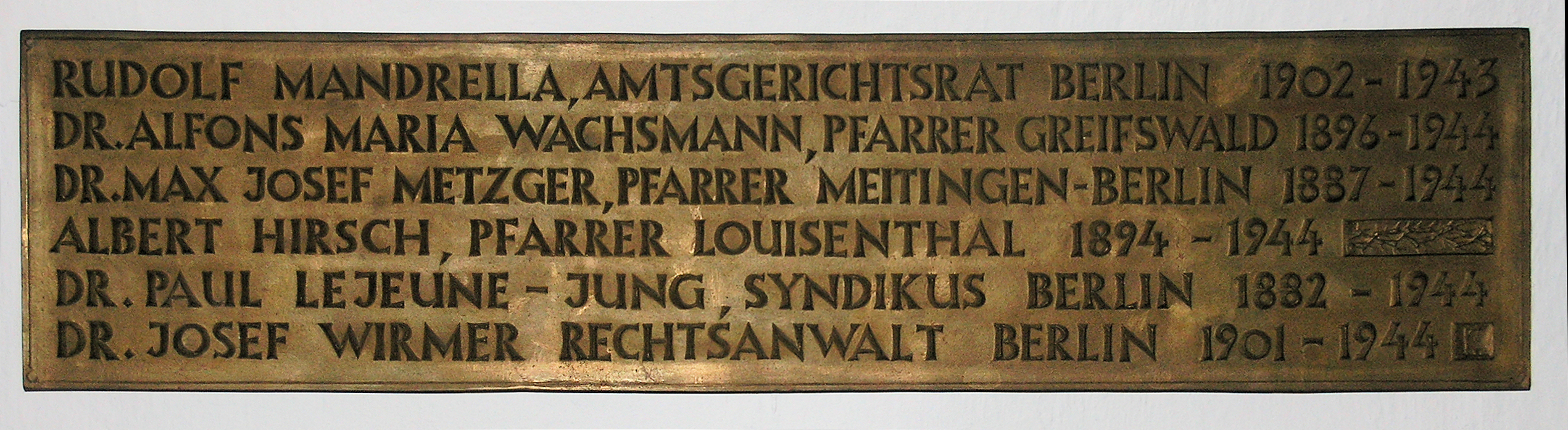 Memorial plaque, Christen im Widerstand, Hinter der Katholischen Kirche 3, Berlin-Mitte, Germany